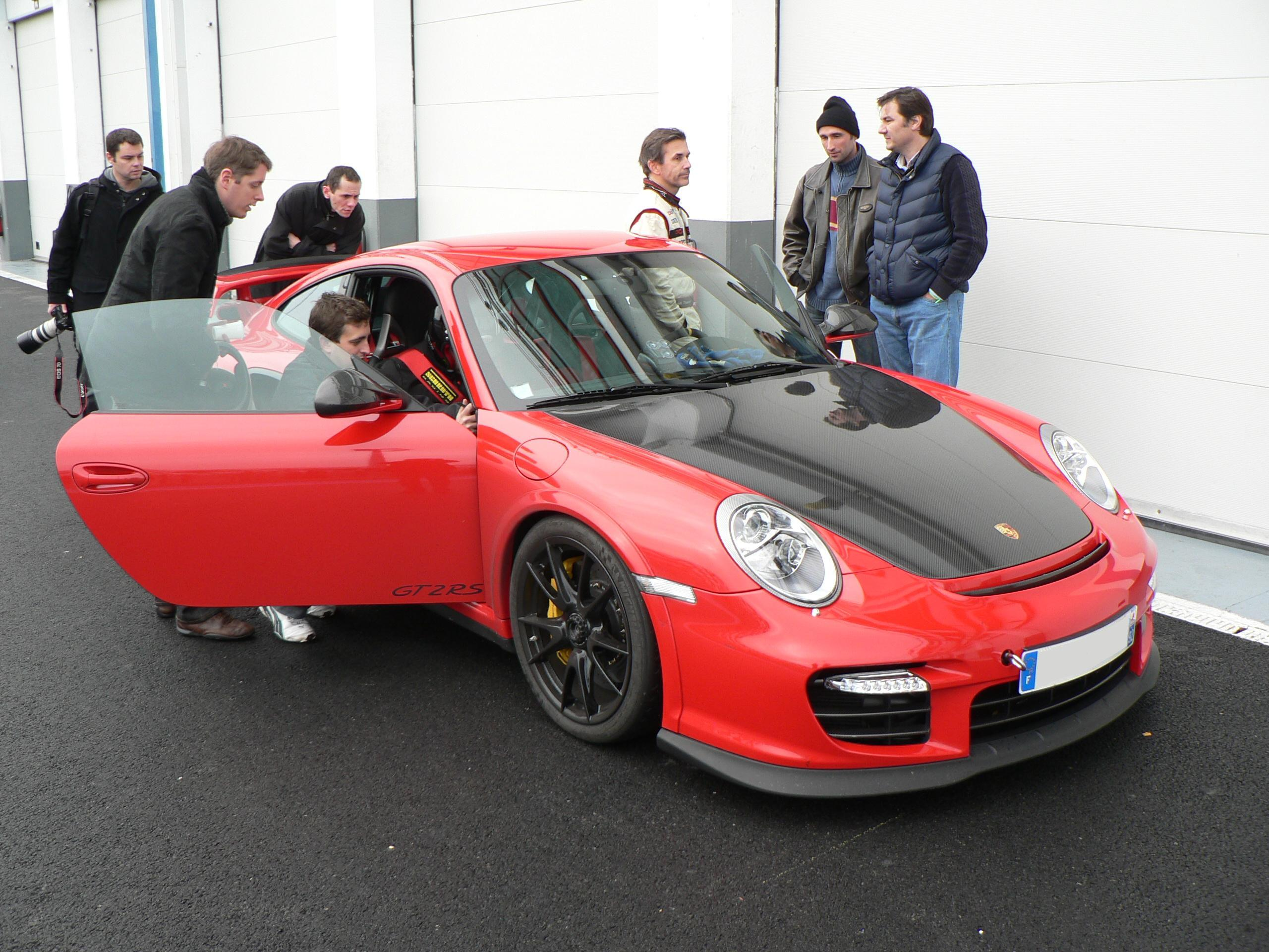 Porsche 911 GT2 RS spotted at the Magny-Cours F1 raceway